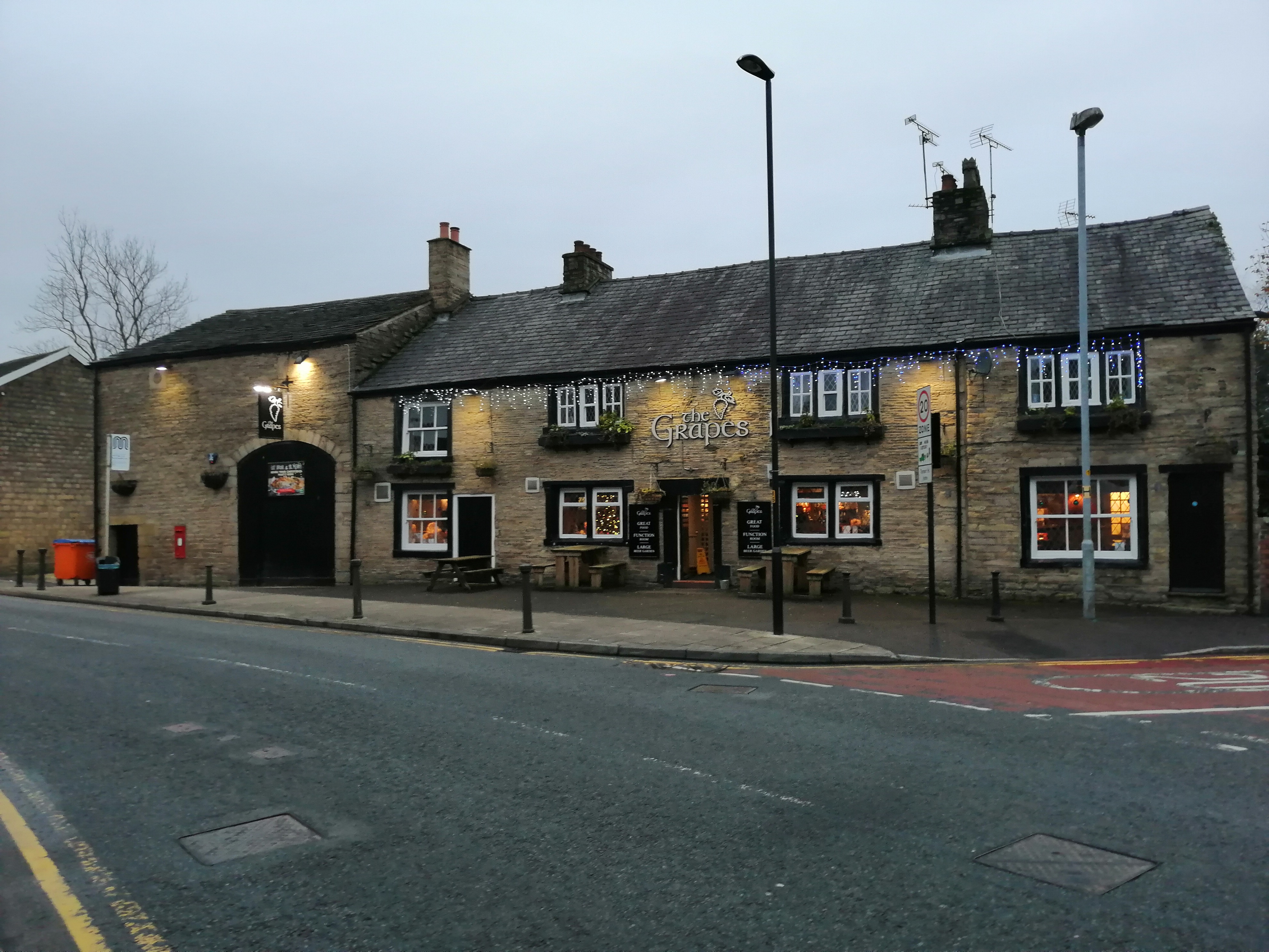 The Grapes Pub is a grade II listed building from 1741.